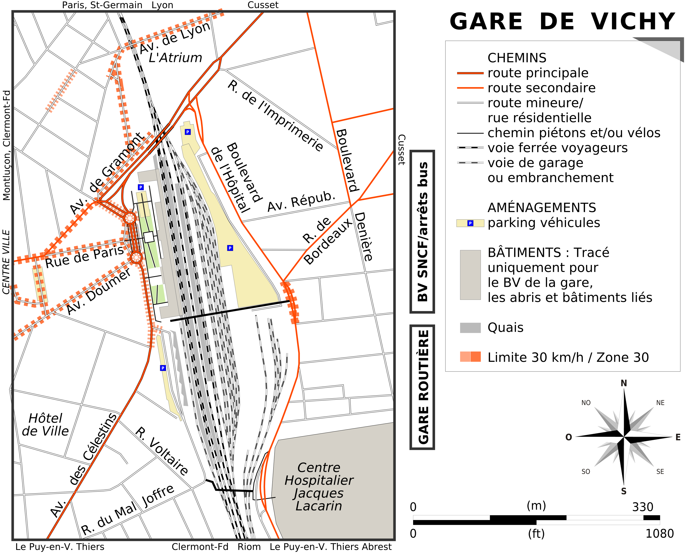 Map of Vichy railway station "neighbourhood"